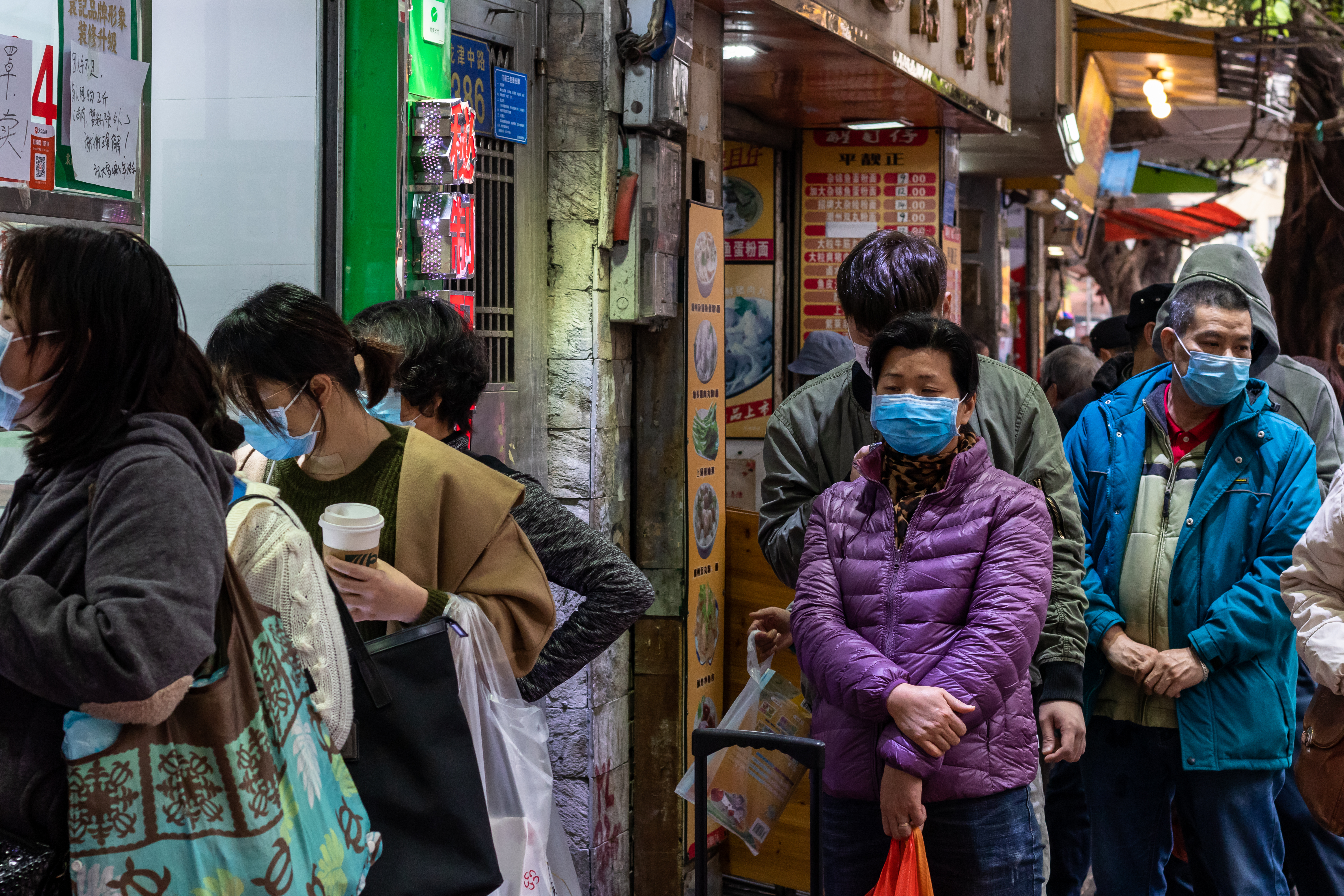 street photo in Guangzhou city